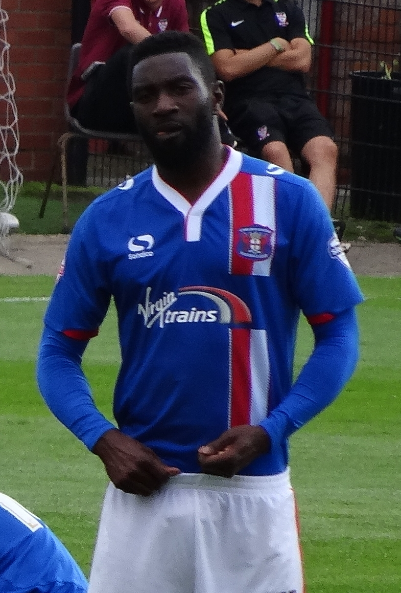 Jabo Ibehre playing for Carlisle United against York City at Bootham Crescent, York on 19 September 2015